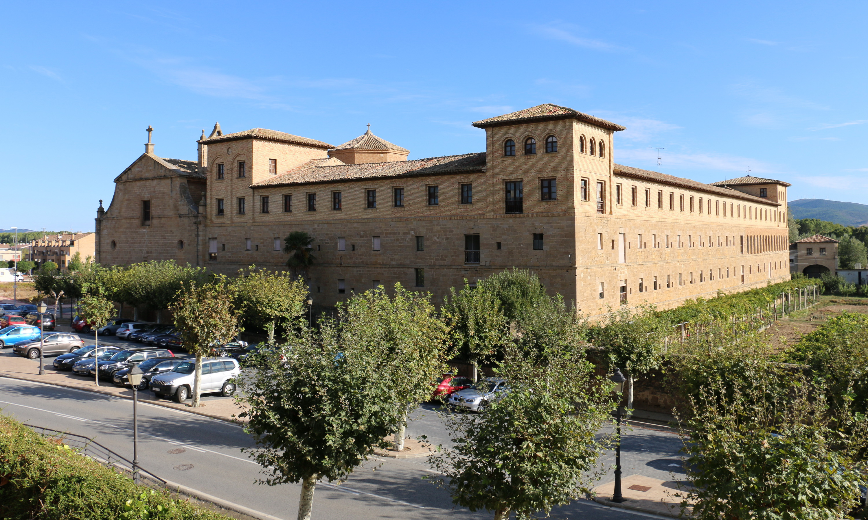 Monasterio de San Francisco, Olite, Spain Monastery of Saint Francis of Assisi, Olite Native nameMonasterio de San Francisco, OliteLocationOlite, Navarre, SpainCoordinates42° 29′ 01″ N, 1° 39′ 02″ W Authority control VIAF: 397144783058287530088